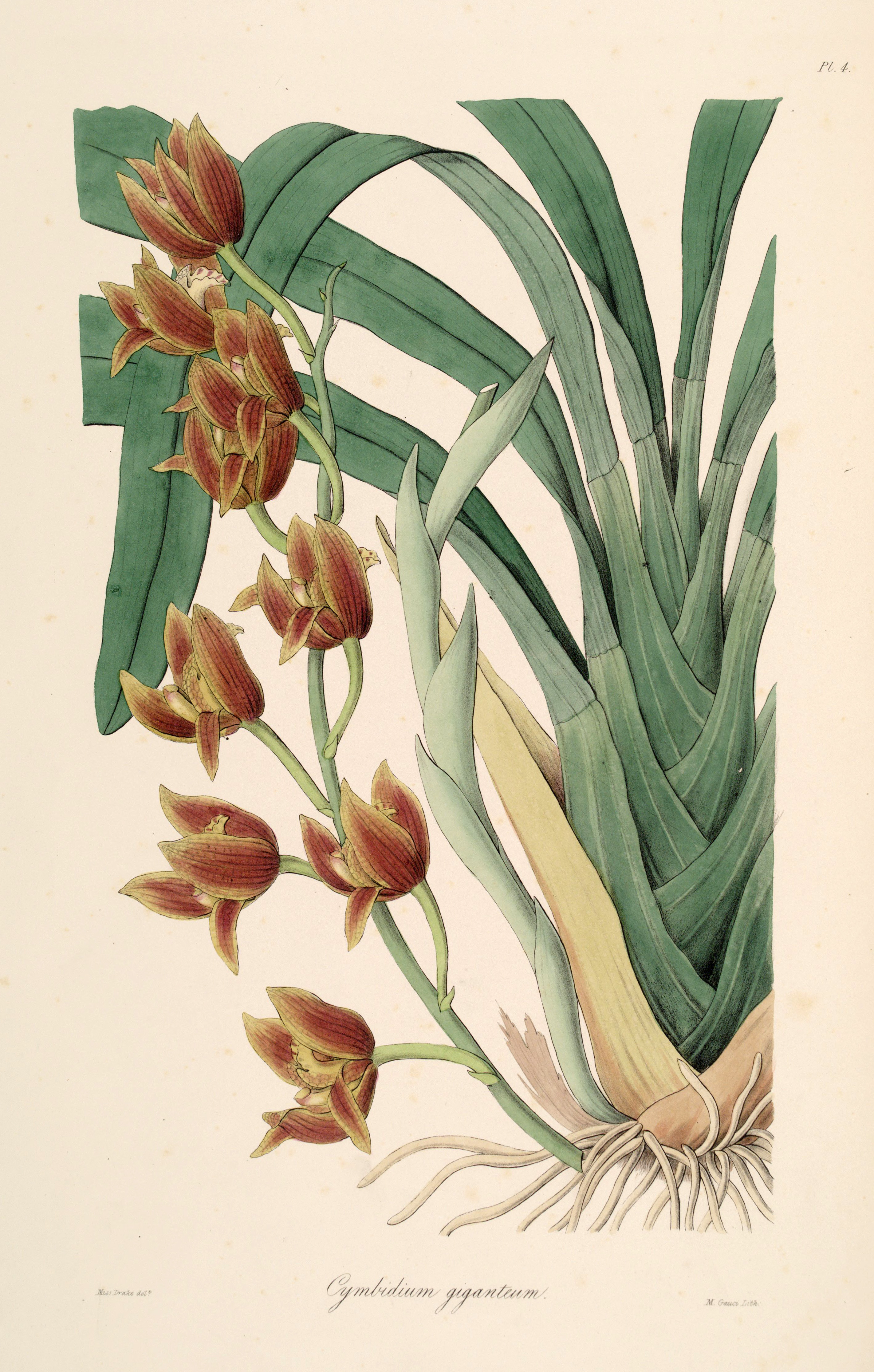 Illustration of Cymbidium iridioides (as syn. Cymbidium giganteum Wall. ex Lindl.)